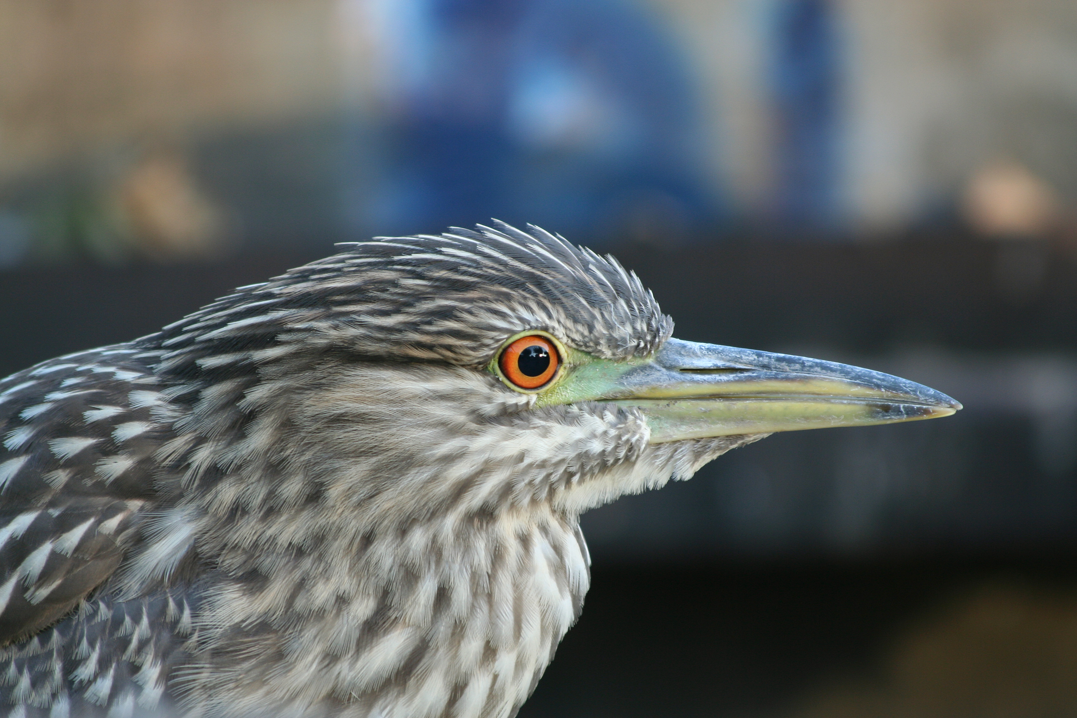 Young night heron (Nycticorax nycticorax) taken at Lake Merritt in Oakland, California.